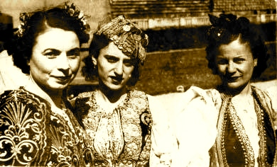 Jorgjia Filce-Truja, Lola Gjoka, Tefta Tashko-Koco in the '30.